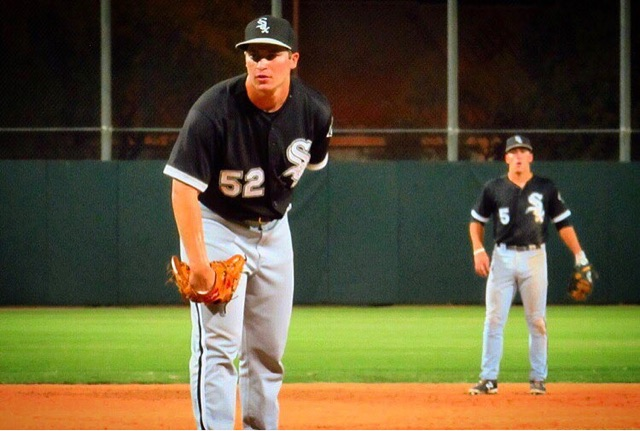 Alex Katz pitching in July 2015.